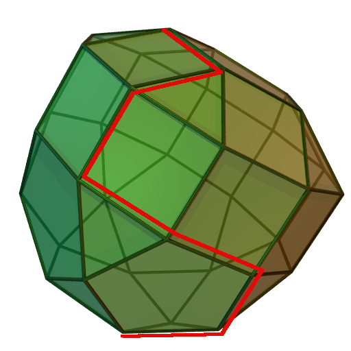 Shows a linear programming polytope together with a possible path (red) taken by the simplex method to solve the corresponding LP.